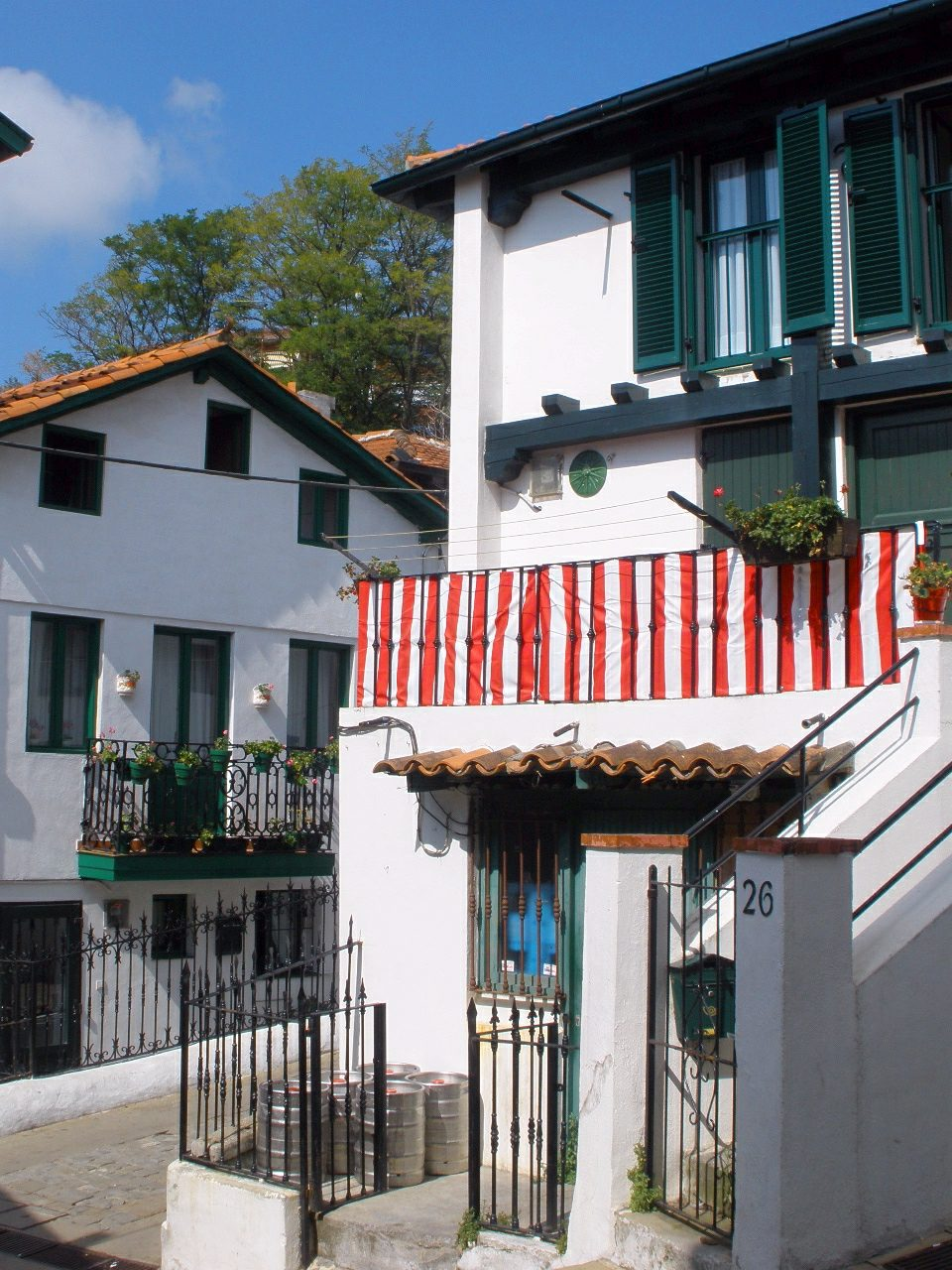 Arquitectura popular marinera en Algorta, Guecho (Vizcaya)